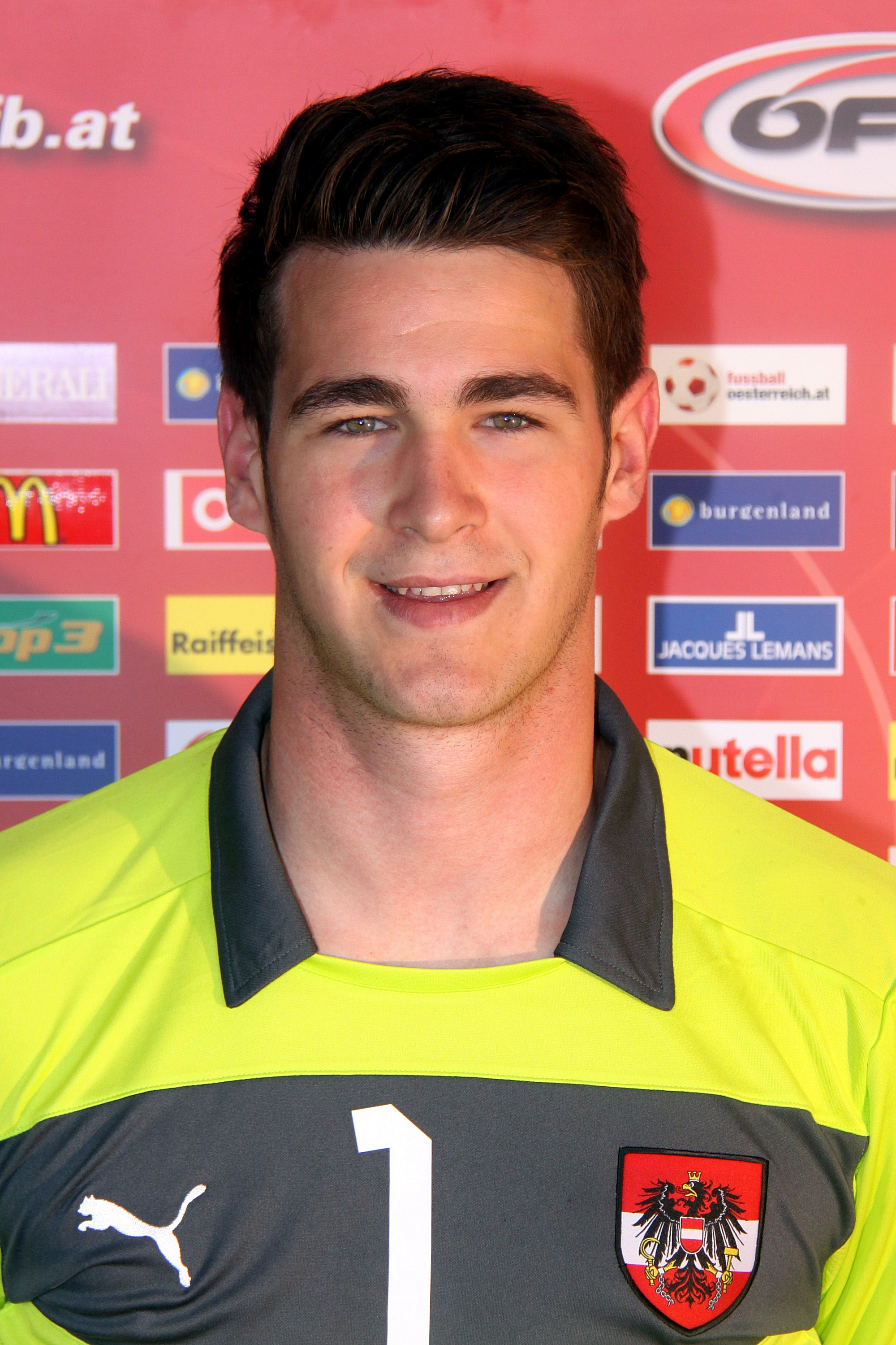 Samuel Radlinger (Hannover 96) - Austria national under-21 football team (age group 1990).